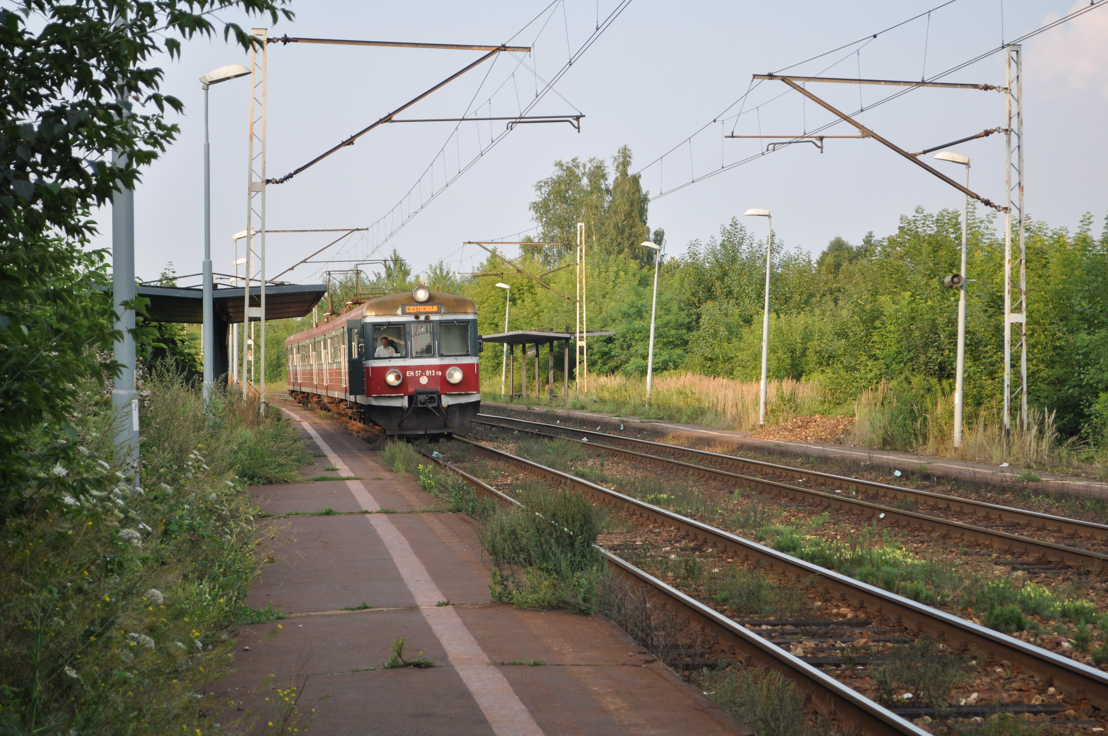 Częstochowa Aniołów train station in Poland. EN57 train.